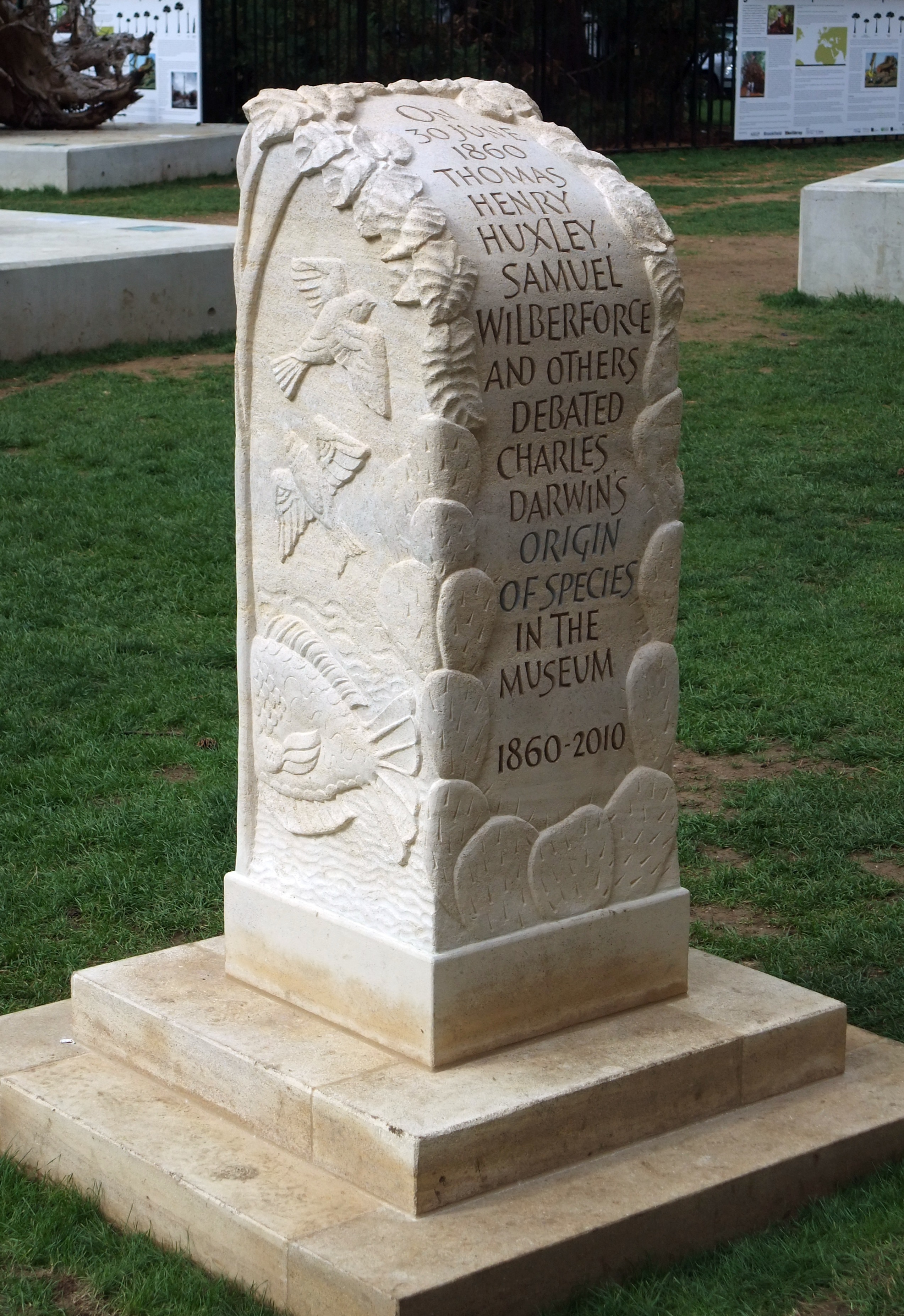 The plaque outside the Oxford University Museum of Natural History, commemorating the debate on evolution which occurred there in 1860 between Thomas Henry Huxley, Samuel Wilberforce and others. Parts of Angela Palmer's "Ghost Forest" installation are visible in the background.